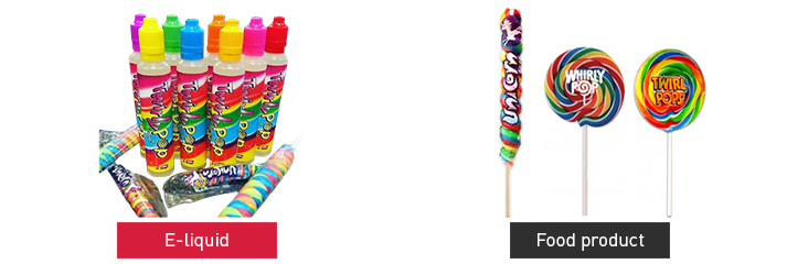 A photograph of Twirly Pops and a photograph of lollipops.